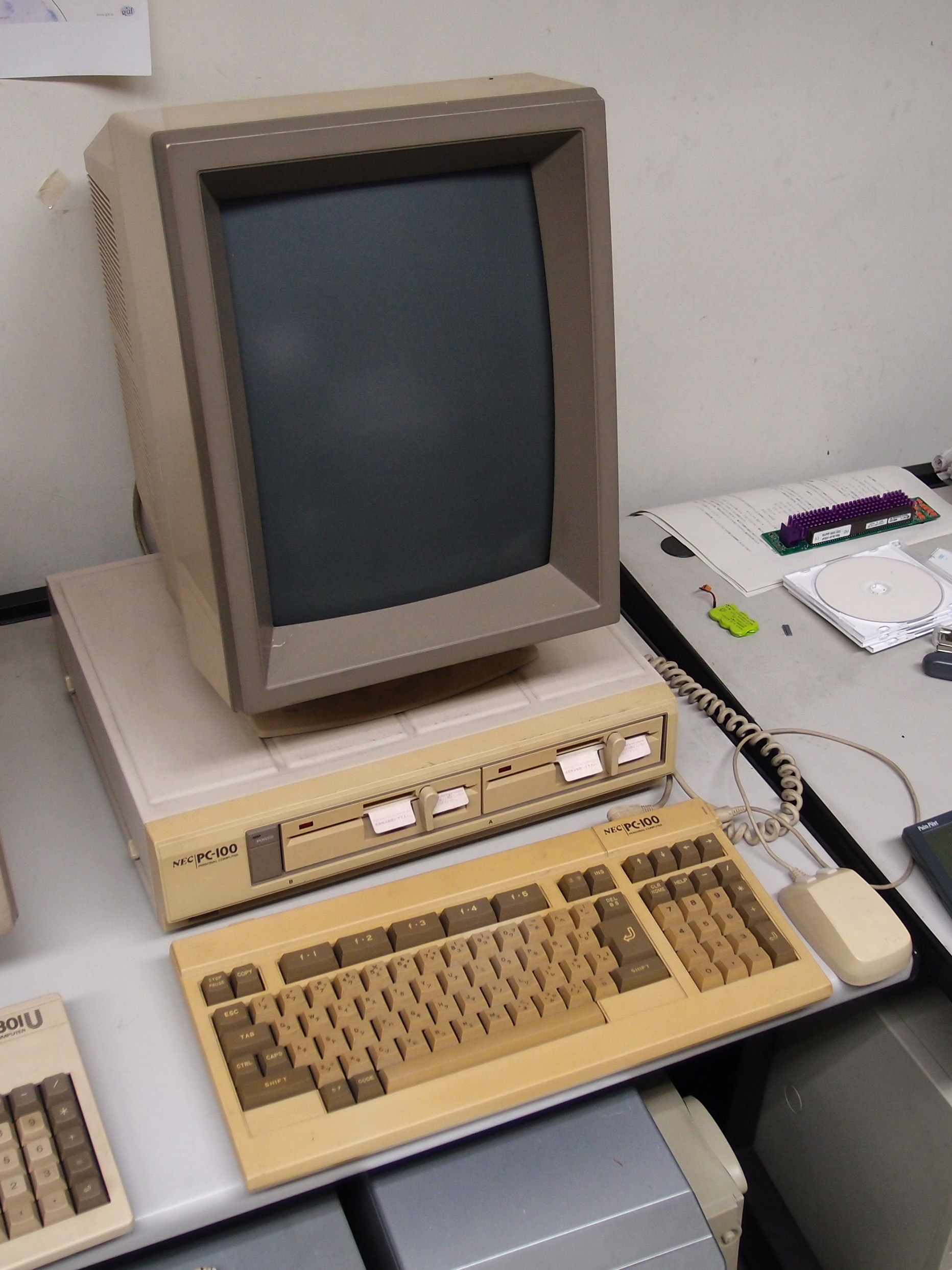 NEC PC-100 (1983) with a mouse and a vertical monitor.